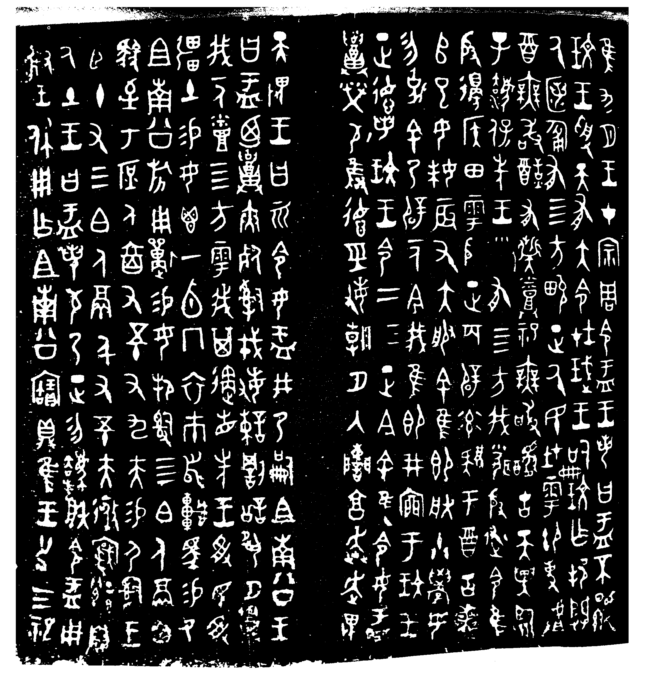 Characters on Ding of Dayu